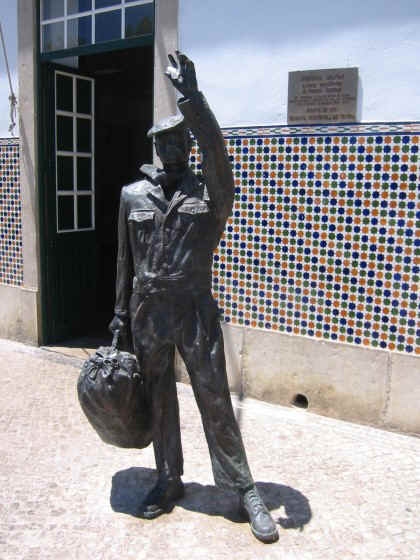 Railway Station Tavira monument for the imigrants